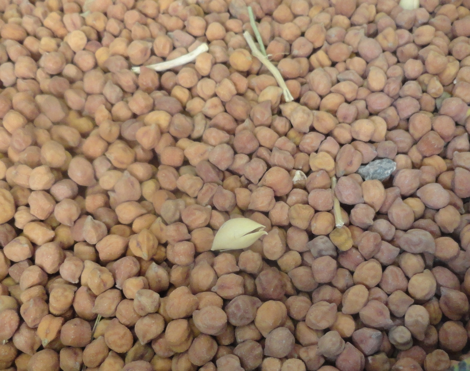 sanagalu